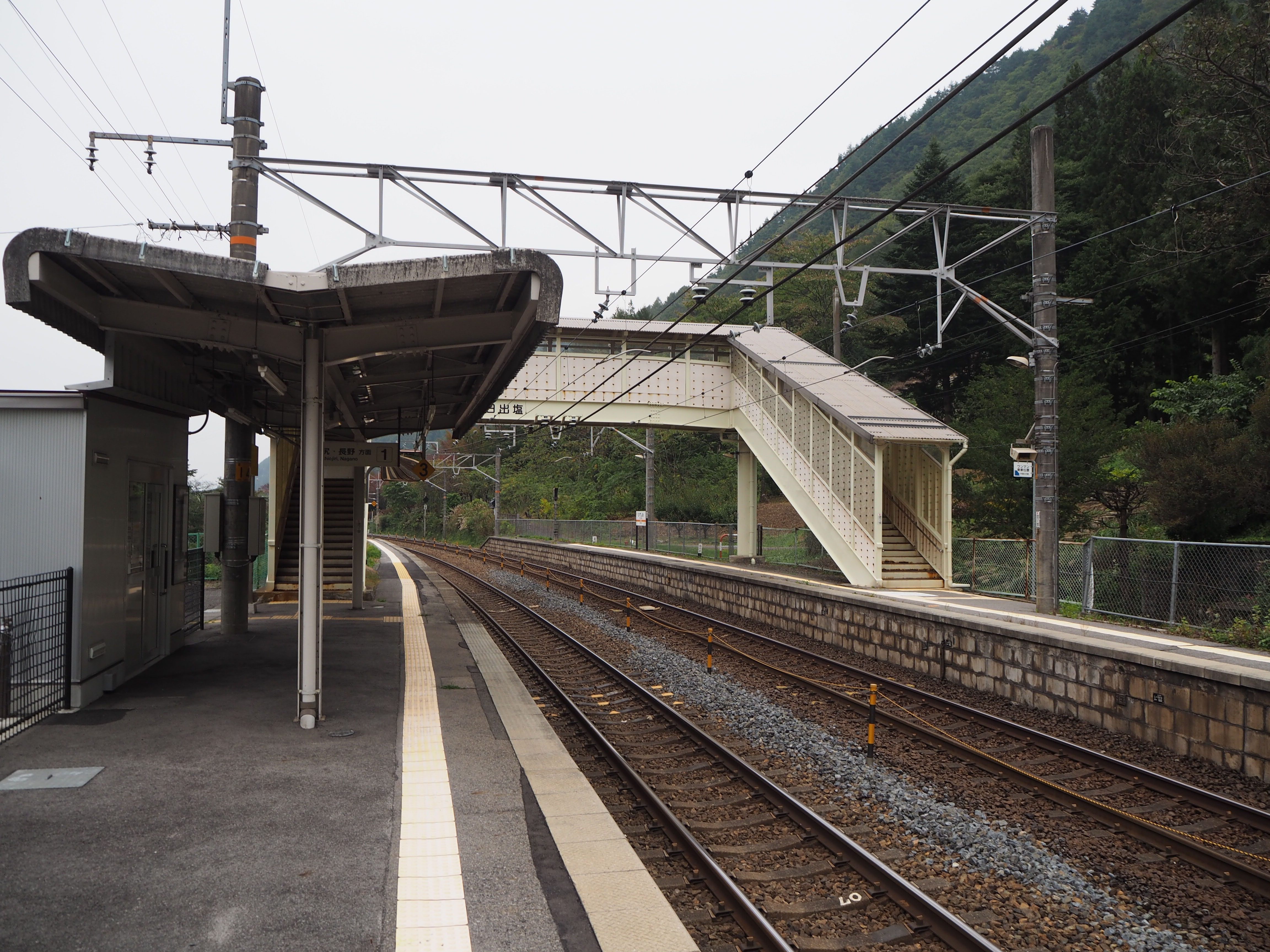 Platforms of Hideshio Station